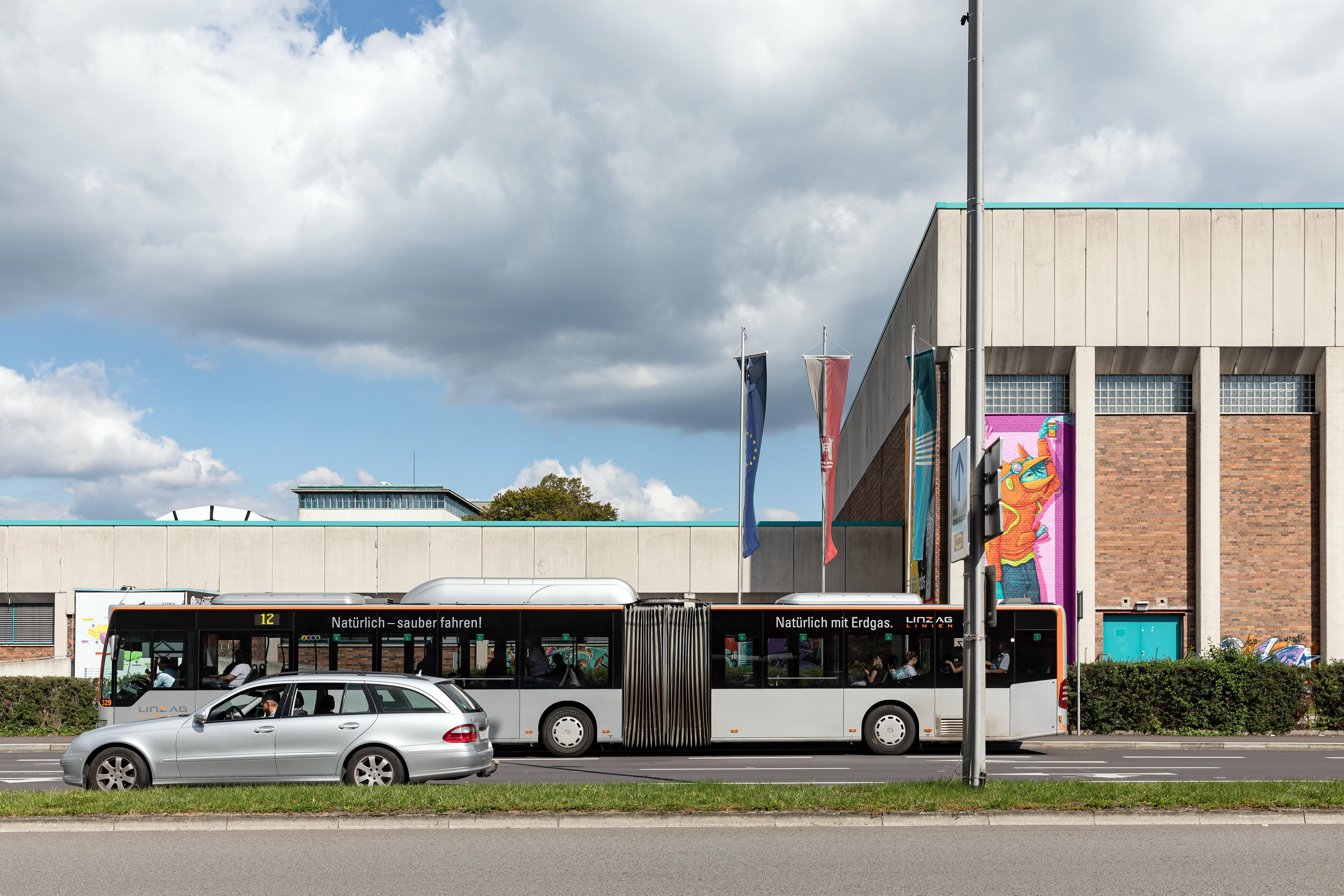 Bus of Linz AG Linz Linien at Tabakfabrik Linz, Upper Austria, Austria.